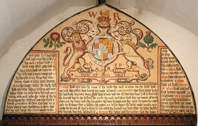 St Mary, Fordwich Kent - Royal Arms Royal Arms dated 1688 over chancel arch, "WR", Willielmus Rex, (King William III). No arms shown or impaled of his wife Queen Mary II